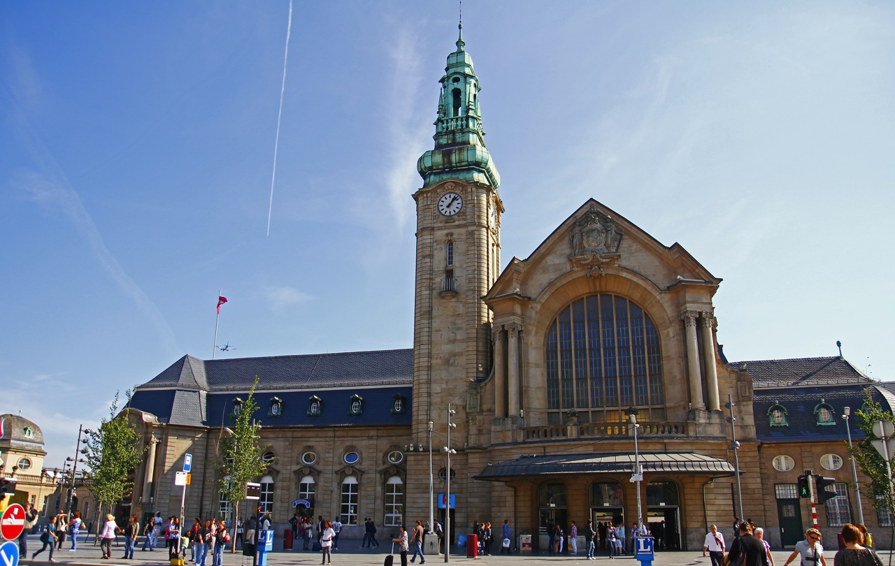 Trainstation Luxembourg City